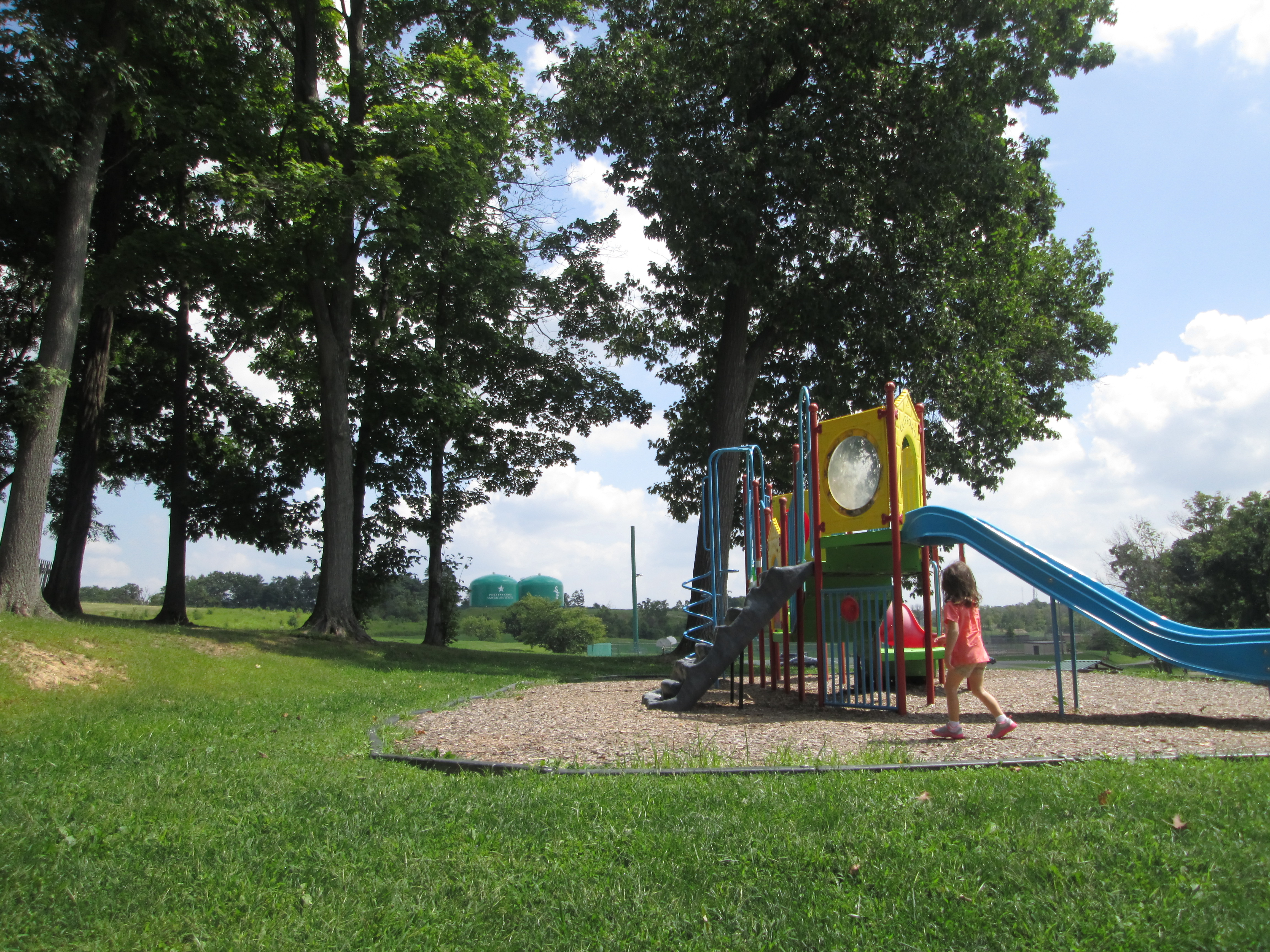 Fairvierw Park South Fayette Township PA